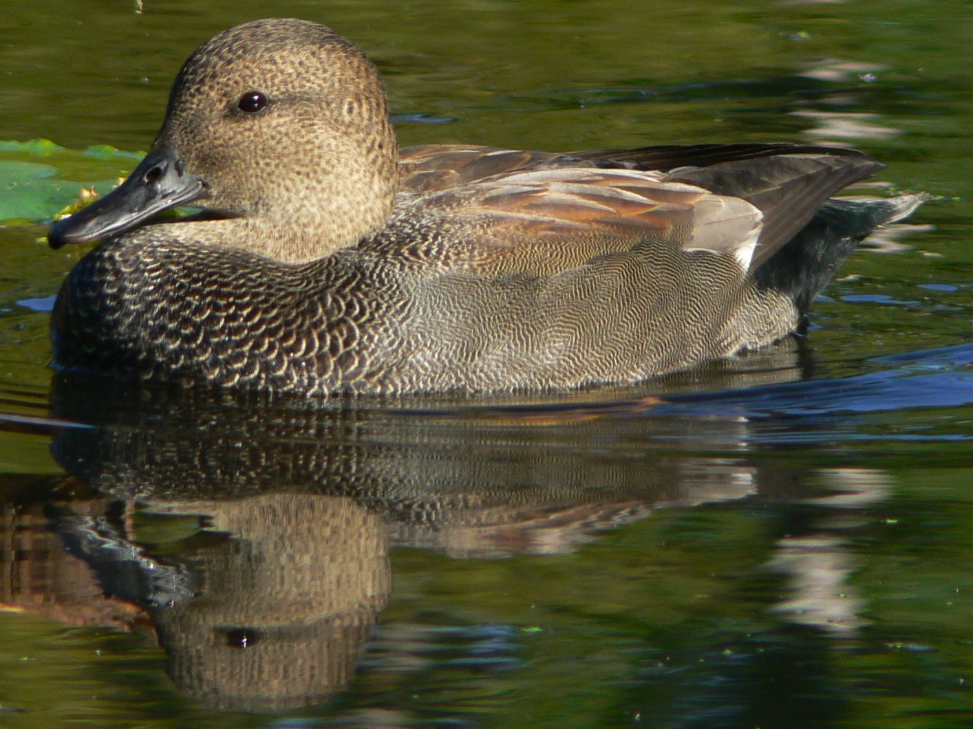 Gadwall